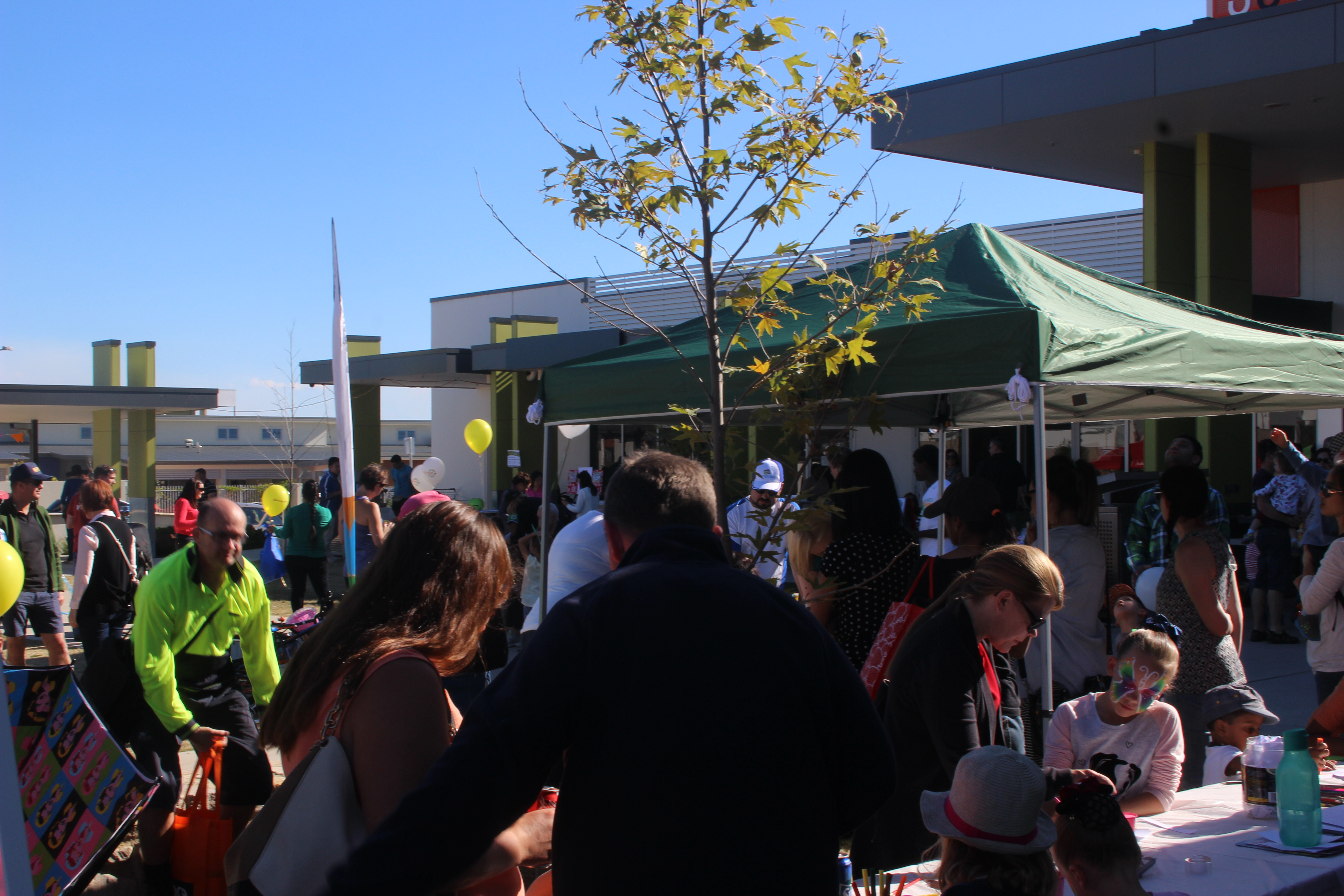 Crace shops street party March 2015